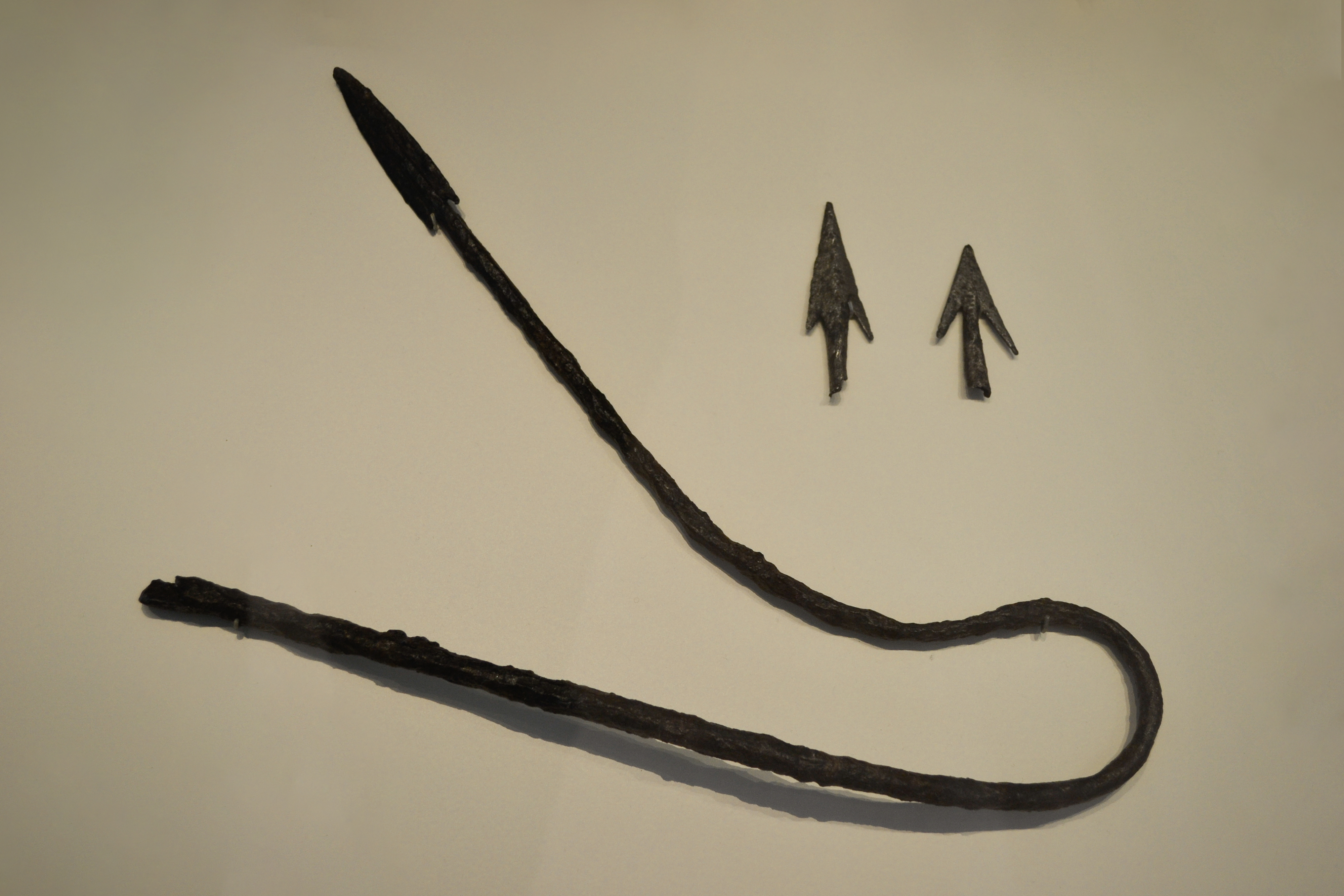 Soliferreum and arrowheads. Wrought iron. Iberian culture. 4th-3rd century BC. Necropolis of Los Collados (Almedinilla). National Archaeological Museum of Spain. Soliferreum: total length: 79.70 cm. Inv. number 10645. Left arrowhead: length: 8.50 cm; maximum width: 2.25 cm. Inv. number 10448. Right arrowhead: length: 7.20 cm; maximum width: 2.70 cm. Inv. number 10449.